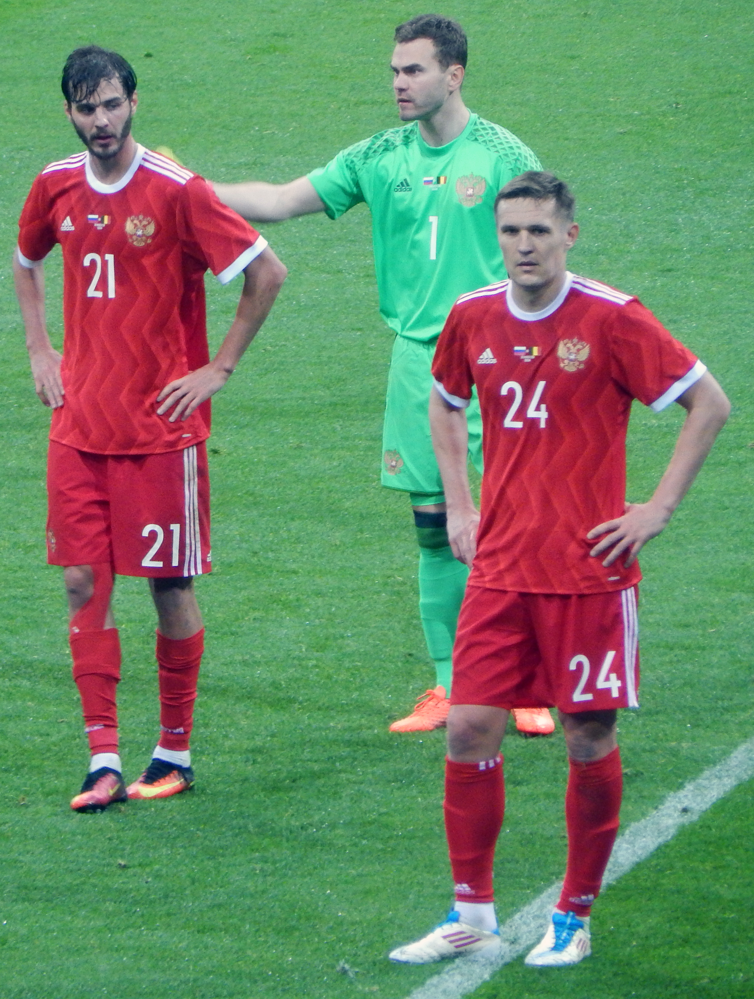 This photo was taken on March 28, 2017 during the exhibition game between Russia and Belgium. That game was held in Adler (City of Sochi) at the Fisht stadium.